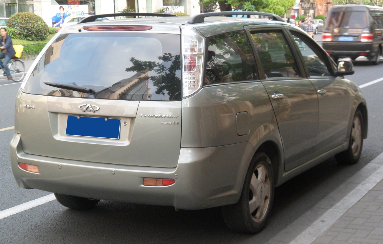 Chery Eastar Cross photographed in Shanghai, China.